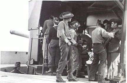 AWM caption : "HOBART, AUSTRALIA. 1943-04-20. PERSONNEL OF DIRECTION BATTERY, HOBART COAST ARTILLERY, MANNING ONE OF THE 6-INCH GUNS AT FORT DIRECTION. INCLUDED IN THE PICTURE ARE TX12936 GUNNER A. LINNELL, T255117 GUNNER C.R. PEARCE AND T255187 LANCE-SERGEANT M.L. TURNER."